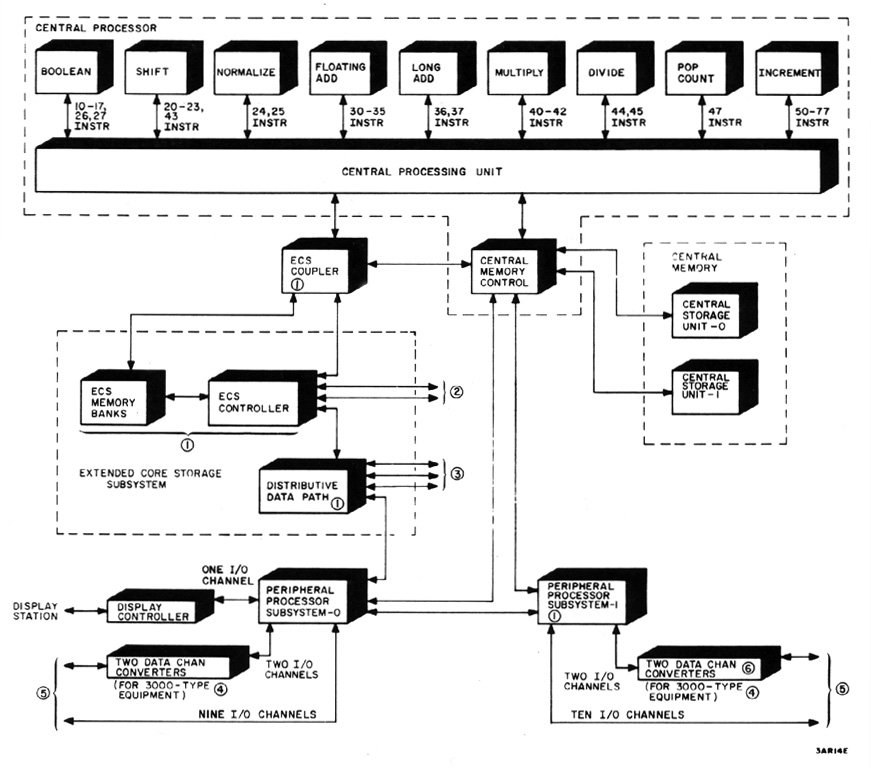 Scanned from a manual in contributor's collection. Scanned from a manual in contributor's collection.